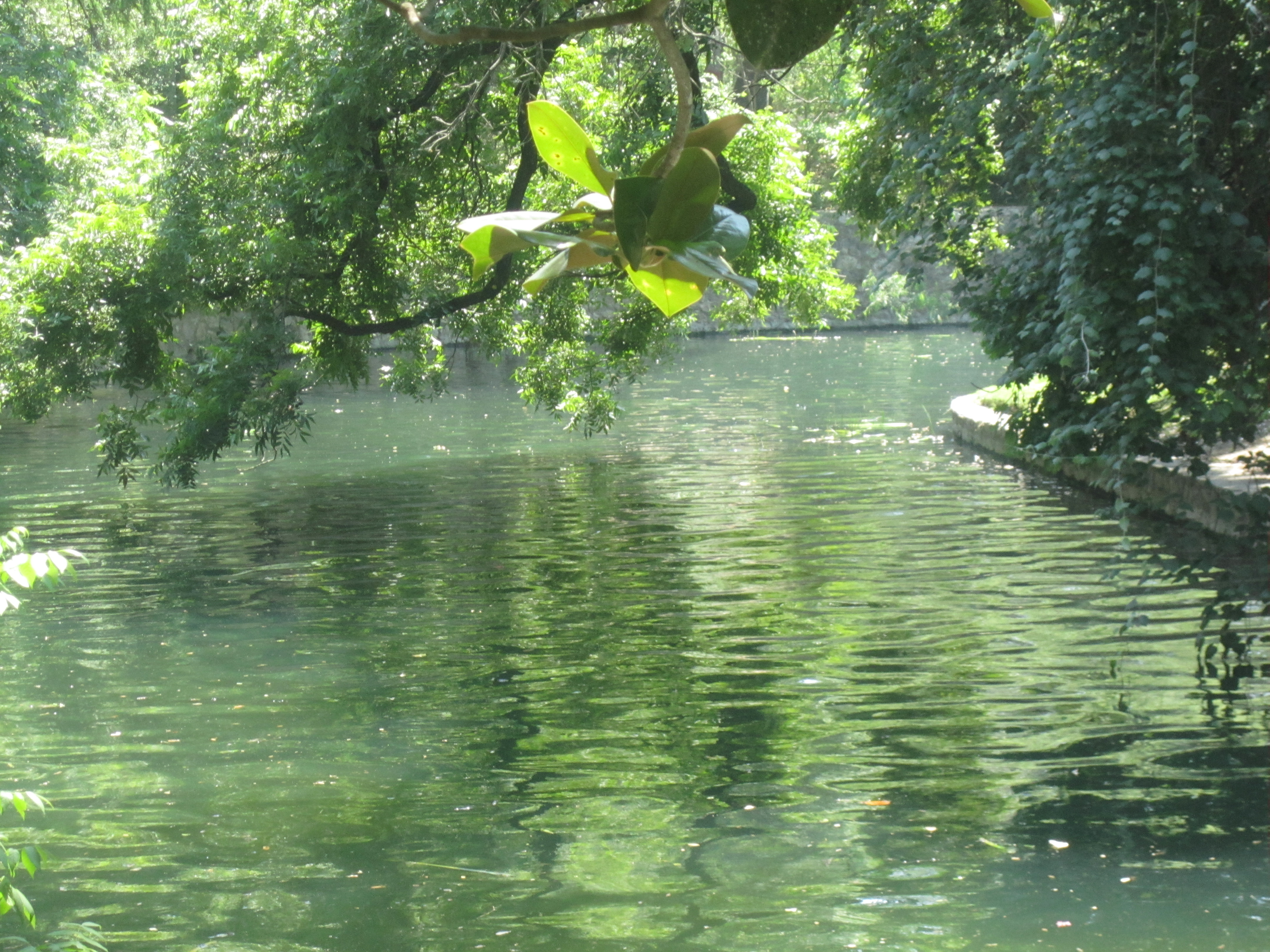 I took photo with Canon camera of San Antonio River, near the source, at the Witte Museum.